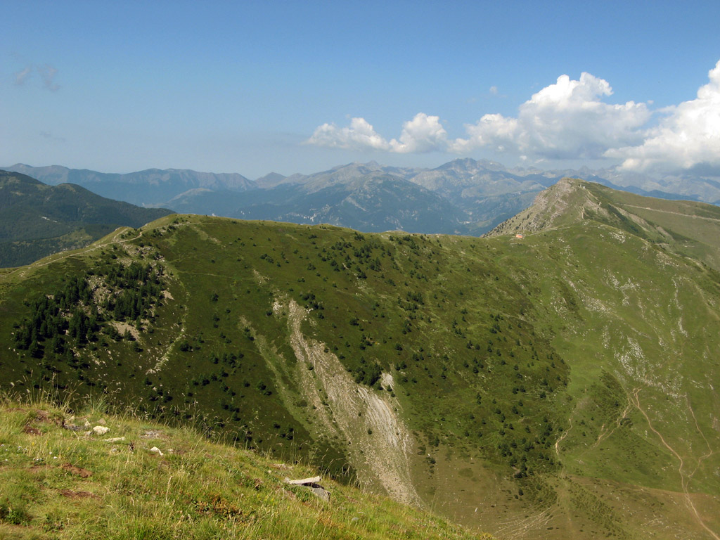 Landscape towards NW from top of Monte Fronté: in the foreground the edge towards the Saccarello, on the right. In the background, the Frech Rocca dell'Abisso